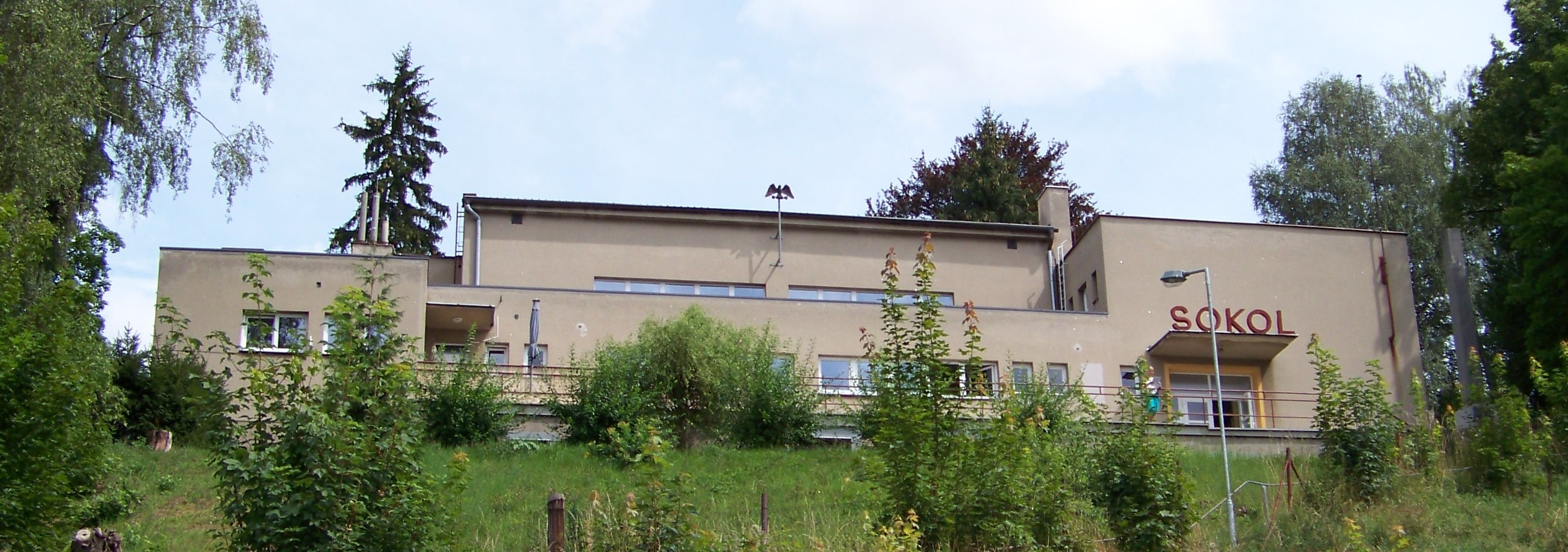 Hronov, Náchod District, Hradec Králové Region, Czech Republic. Palackého 575, a Sokol house.